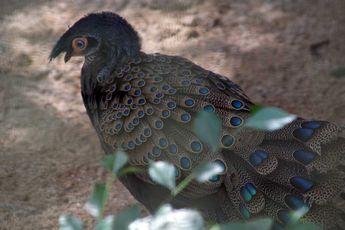 Merak Pongsu (in Malay) at Zoo Melaka, Malaysia. Also known as Crested Peacock-pheasant or Malaysian Peacock-pheasant.